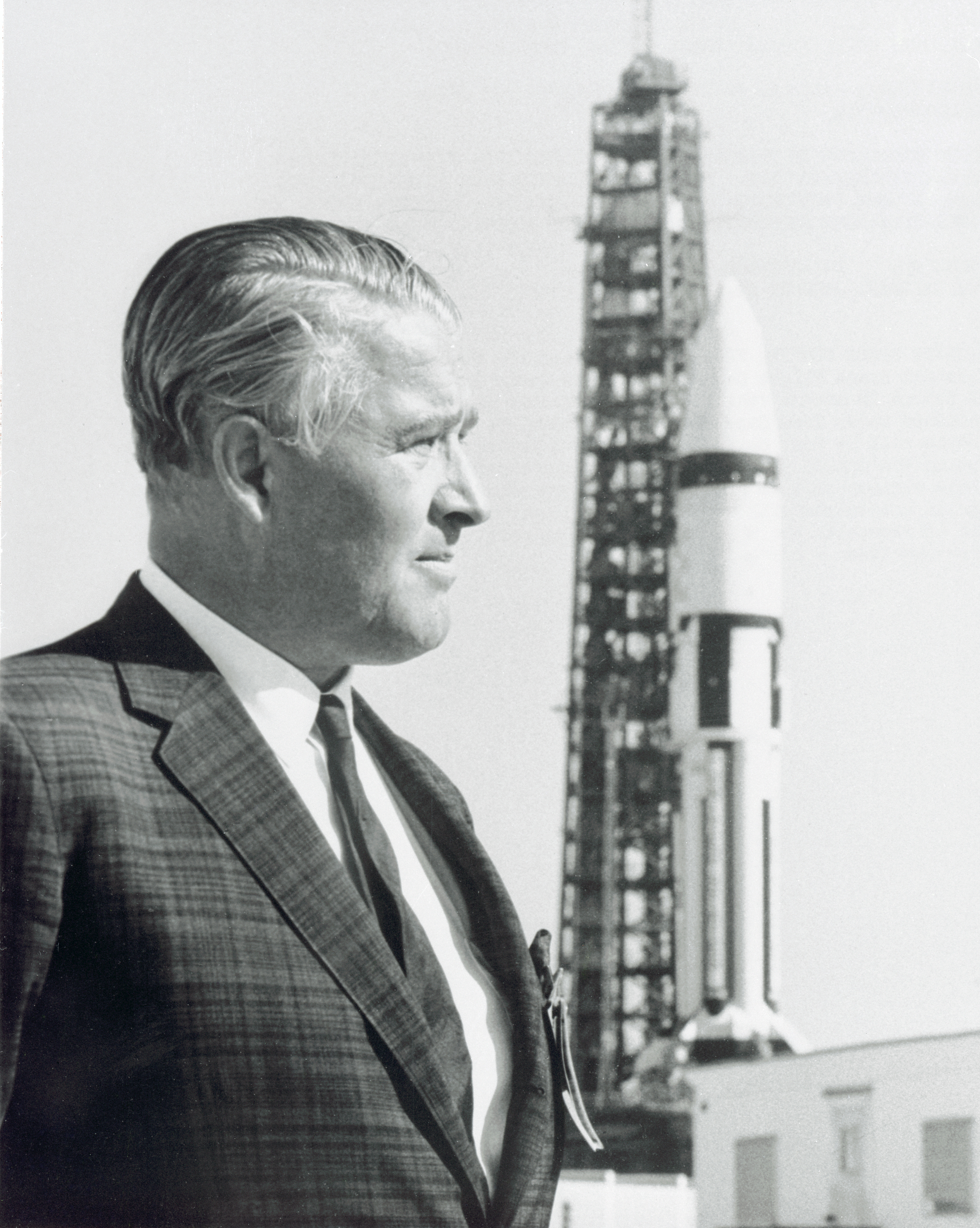 Wernher von Braun and Saturn IB on Launch Pad - Dr. Wernher von Braun stands in front of a Saturn IB launch vehicle at Kennedy Space Flight Center. Dr. von Braun led a team of German rocket scientists, called the Rocket Team, to the United States, first to Fort Bliss/White Sands, later being transferred to the Army Ballistic Missile Agency at Redstone Arsenal in Huntsville, Alabama. They were further transferred to the newly established NASA/Marshall Space Flight Center (MSFC) in Huntsville, Alabama in 1960, and Dr. von Braun became the first Center Director. Under von Braun's direction, MSFC developed the Mercury-Redstone, which put the first American in space; and later the Saturn rockets, Saturn I, Saturn IB, and Saturn V. The Saturn V launch vehicle put the first human on the surface of the Moon, and a modified Saturn V vehicle placed Skylab, the first United States' experimental space station, into Earth orbit. Dr. von Braun was MSFC Director from July 1960 to February 1970.